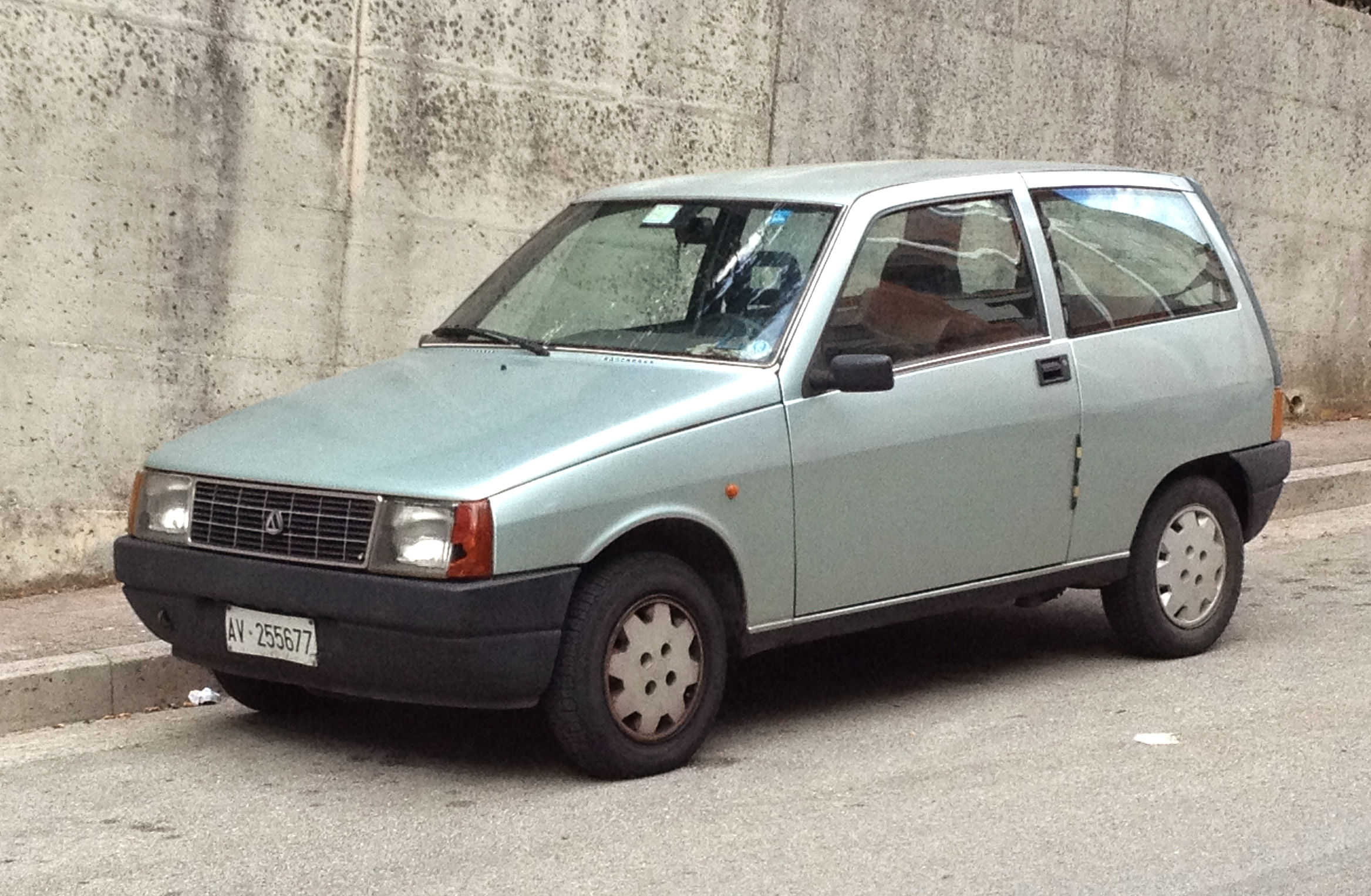 Autobianchi Y10 in Avellino